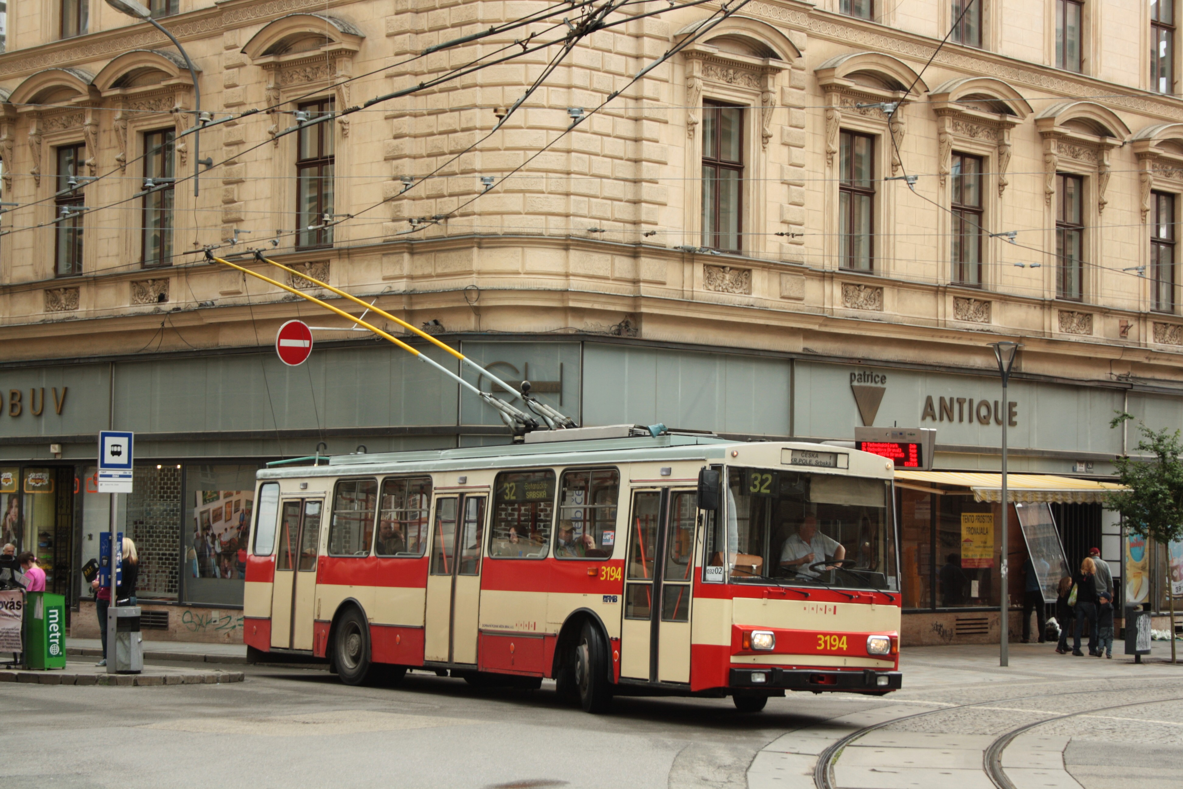 Škoda 14Tr07 trolleybus No. 3194, Brno, Czech Republic - OpenStreetMap(Info) This photograph was taken with DSLR from WMCZ's Camera grant